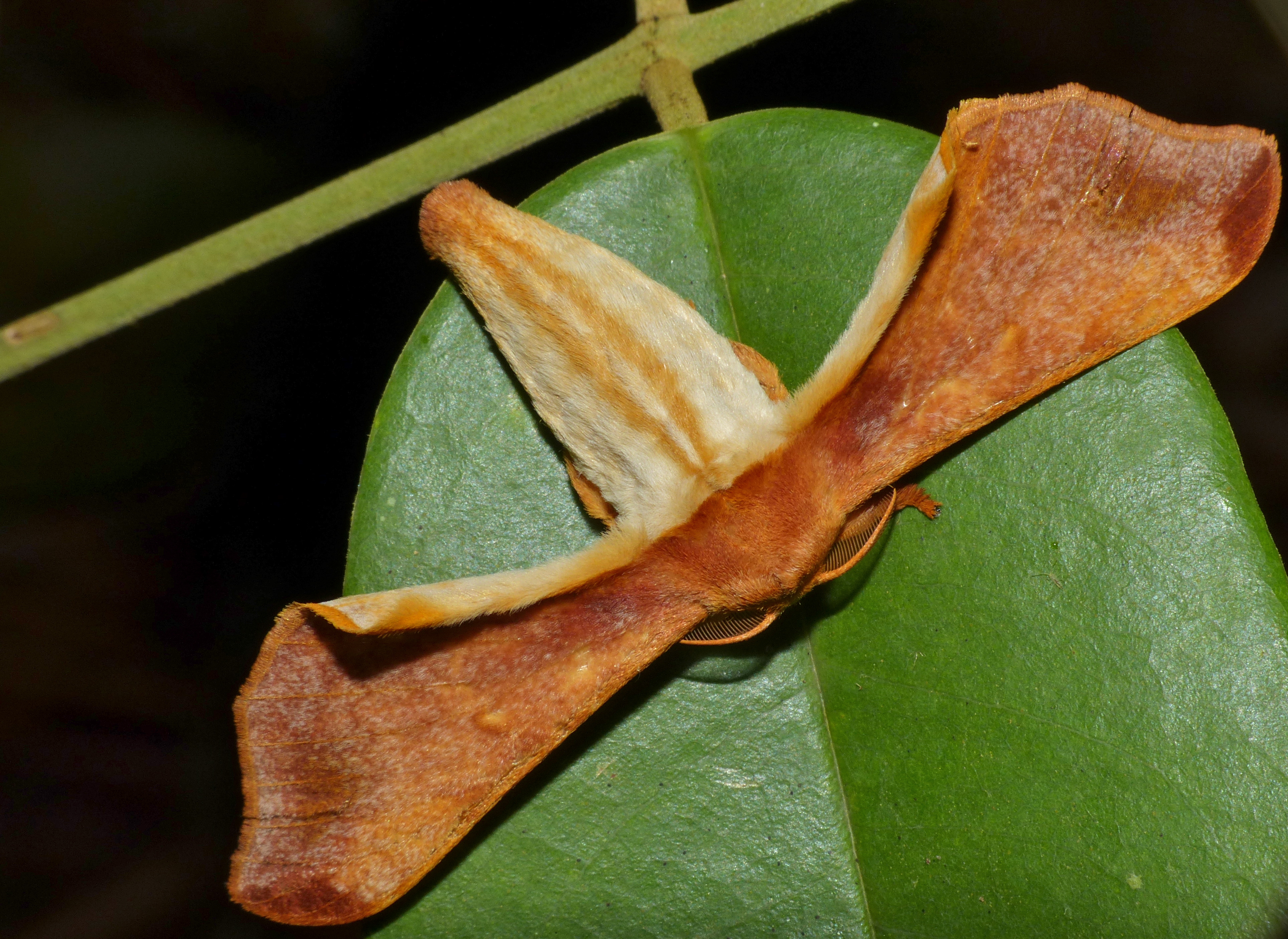 Permai Rainforest Resort, Santubong Peninsula North of Kuching, Sarawak, MALAYSIA